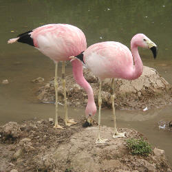 Andean Flamingos at Slimbridge Wildfowl and Wetlands Centre, Gloucestershire, England. Taken by Adrian Pingstone in June 2003 and released to the public domain.